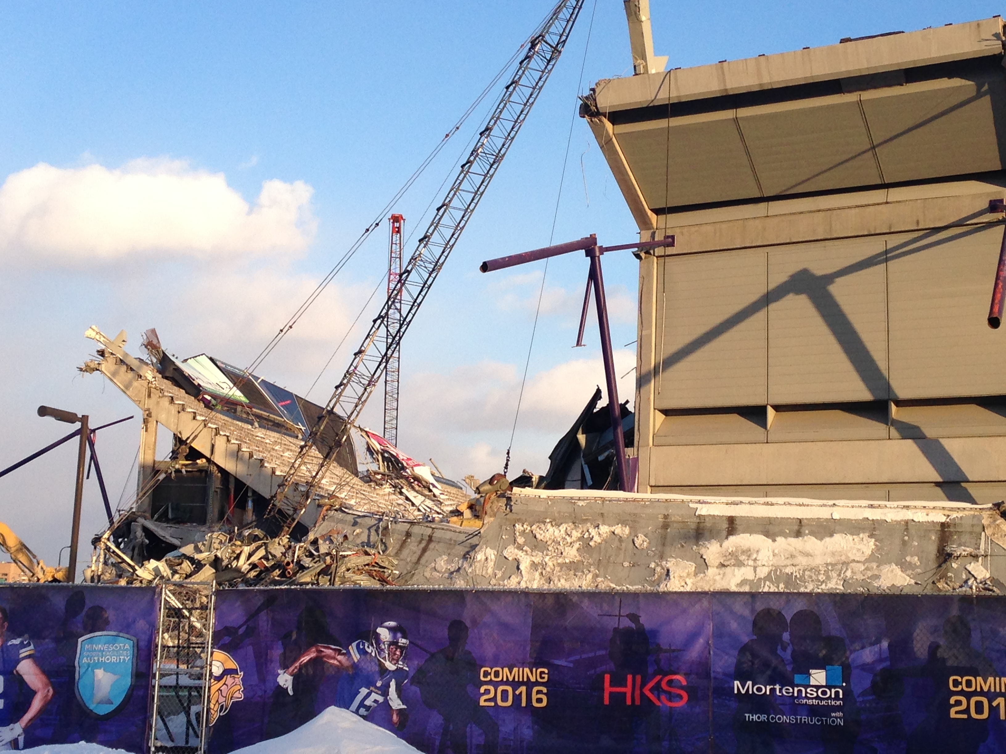 Fall and winter 2013/14. Demolition of the home of the Minnesota Vikings NFL team.